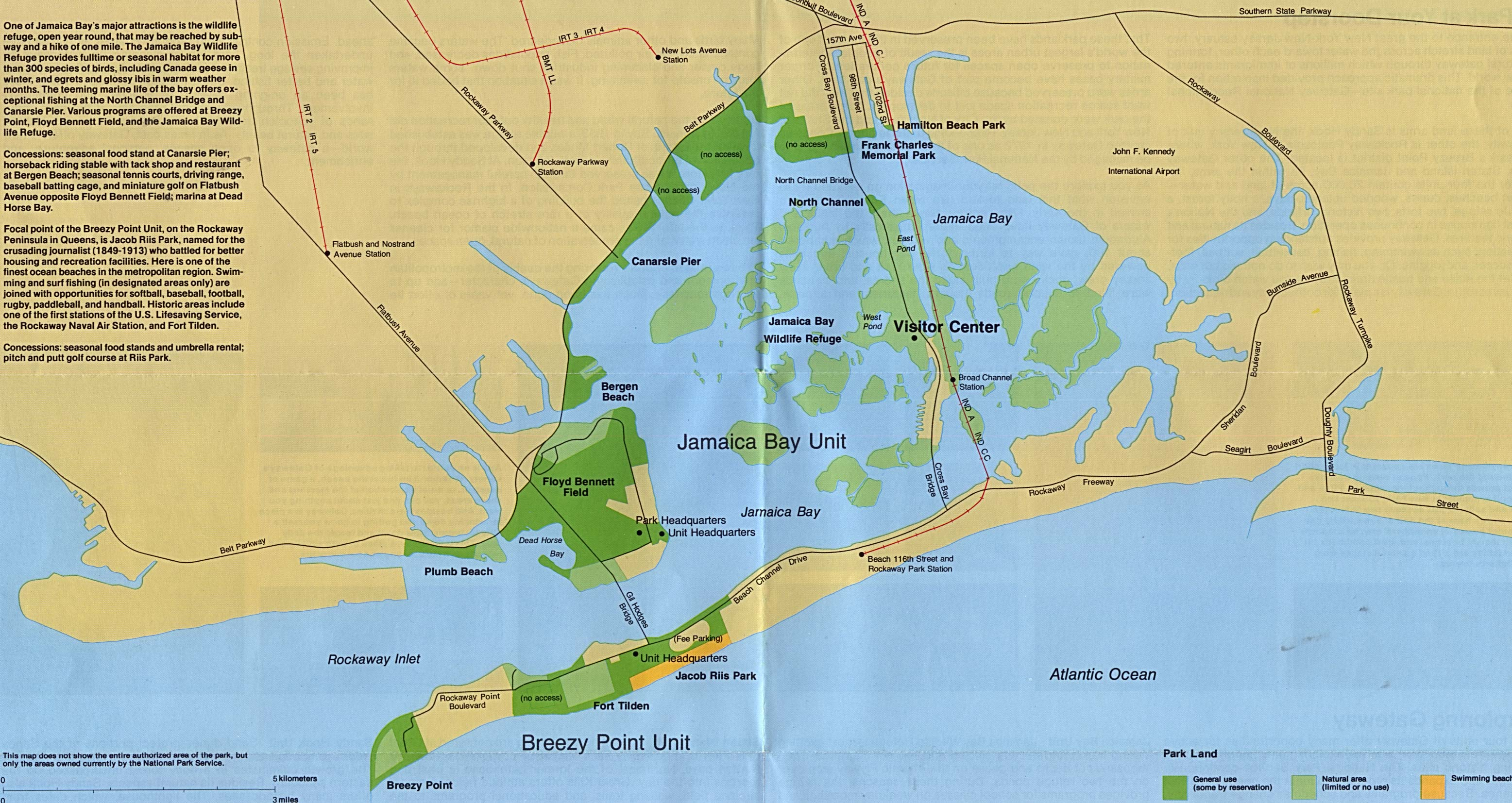 Jamaica Bay map. Source: U. Texas PCL map collection, JPG file